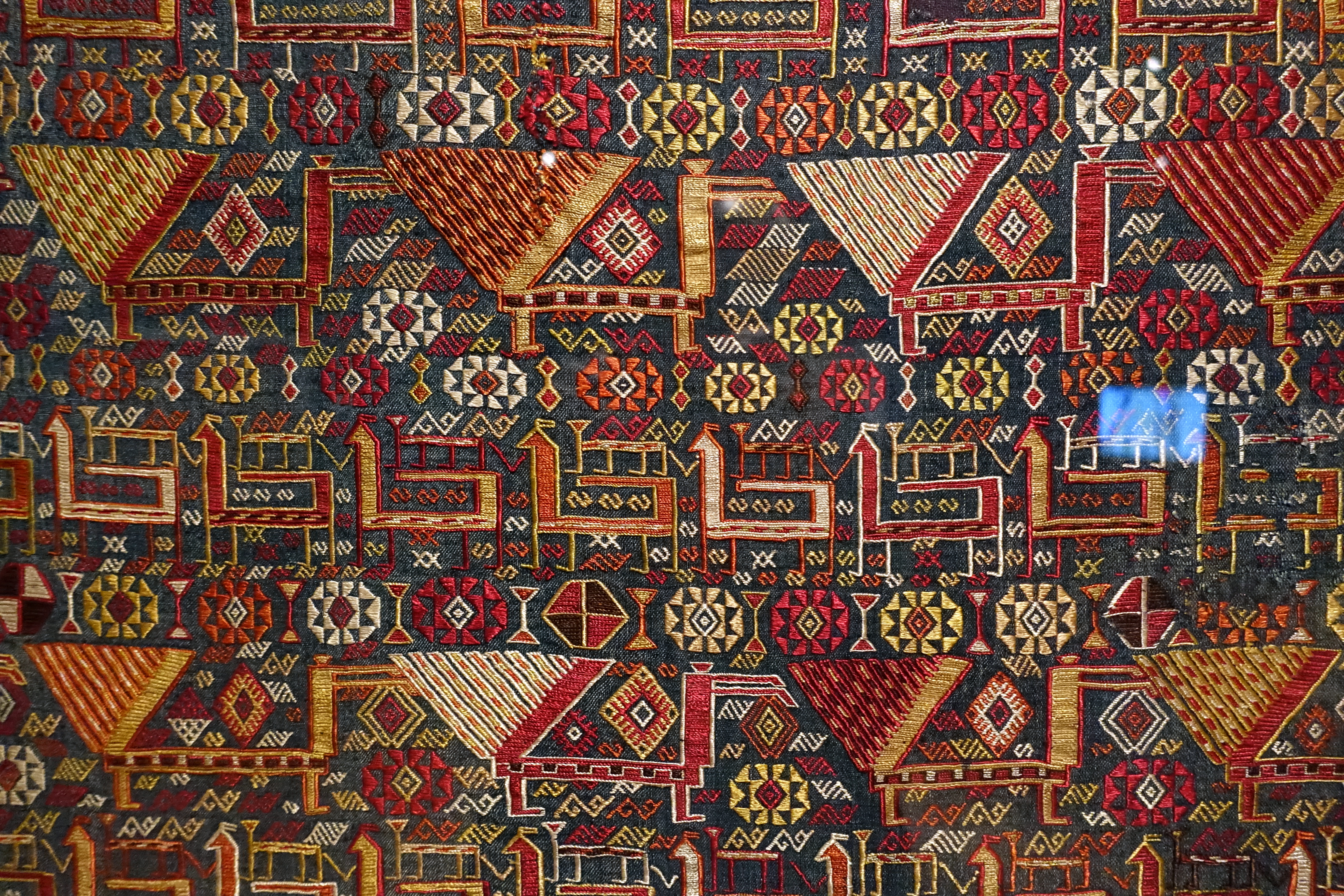 Exhibit in the Textile Museum, George Washington University, Washington, DC, USA. This work is old enough so that it is in the public domain.